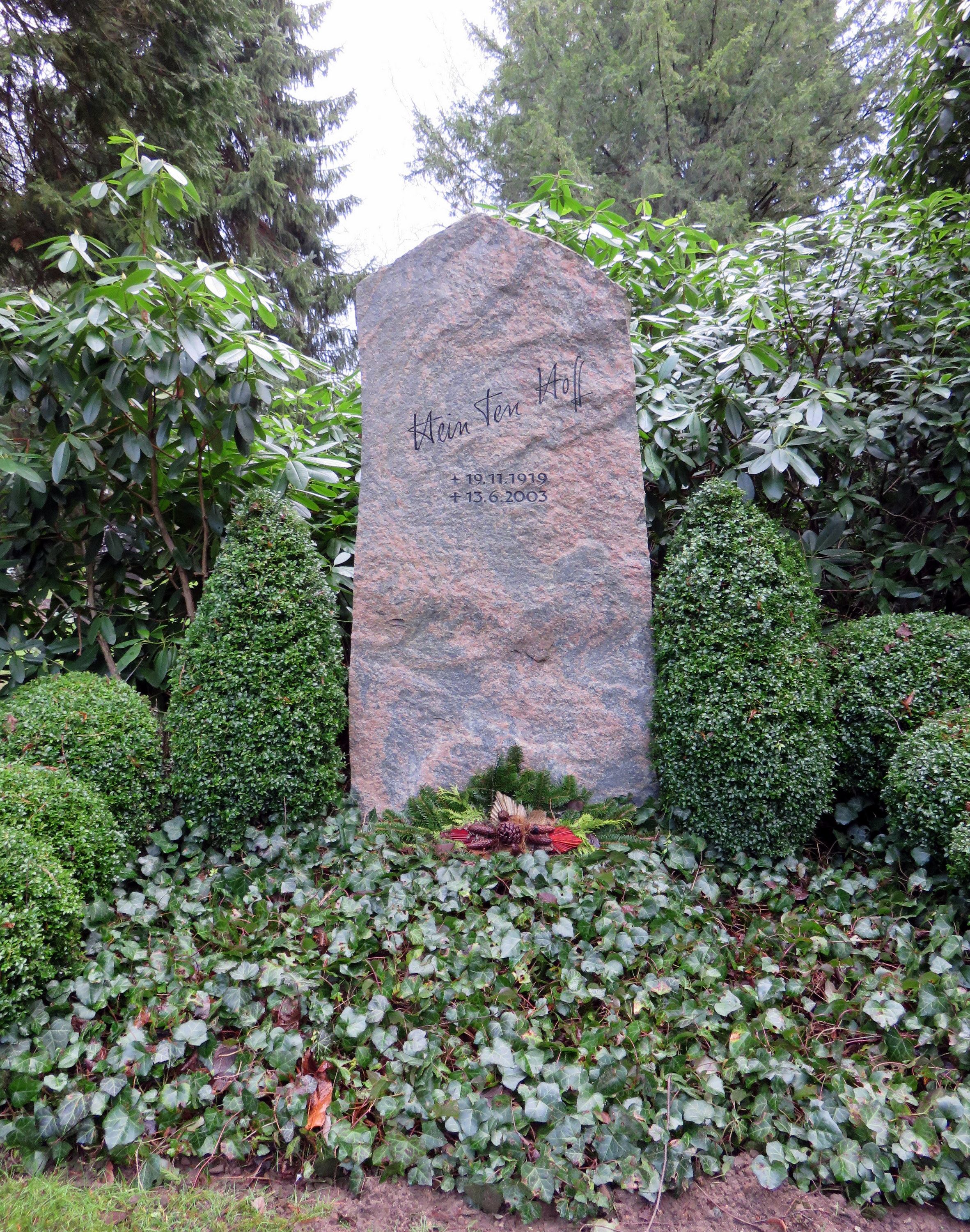 Grave of German boxer Hein ten Hoff (1919-2003) at the cemetery of Hamburg-Bergstedt, map R 8 / 4 + a-d.